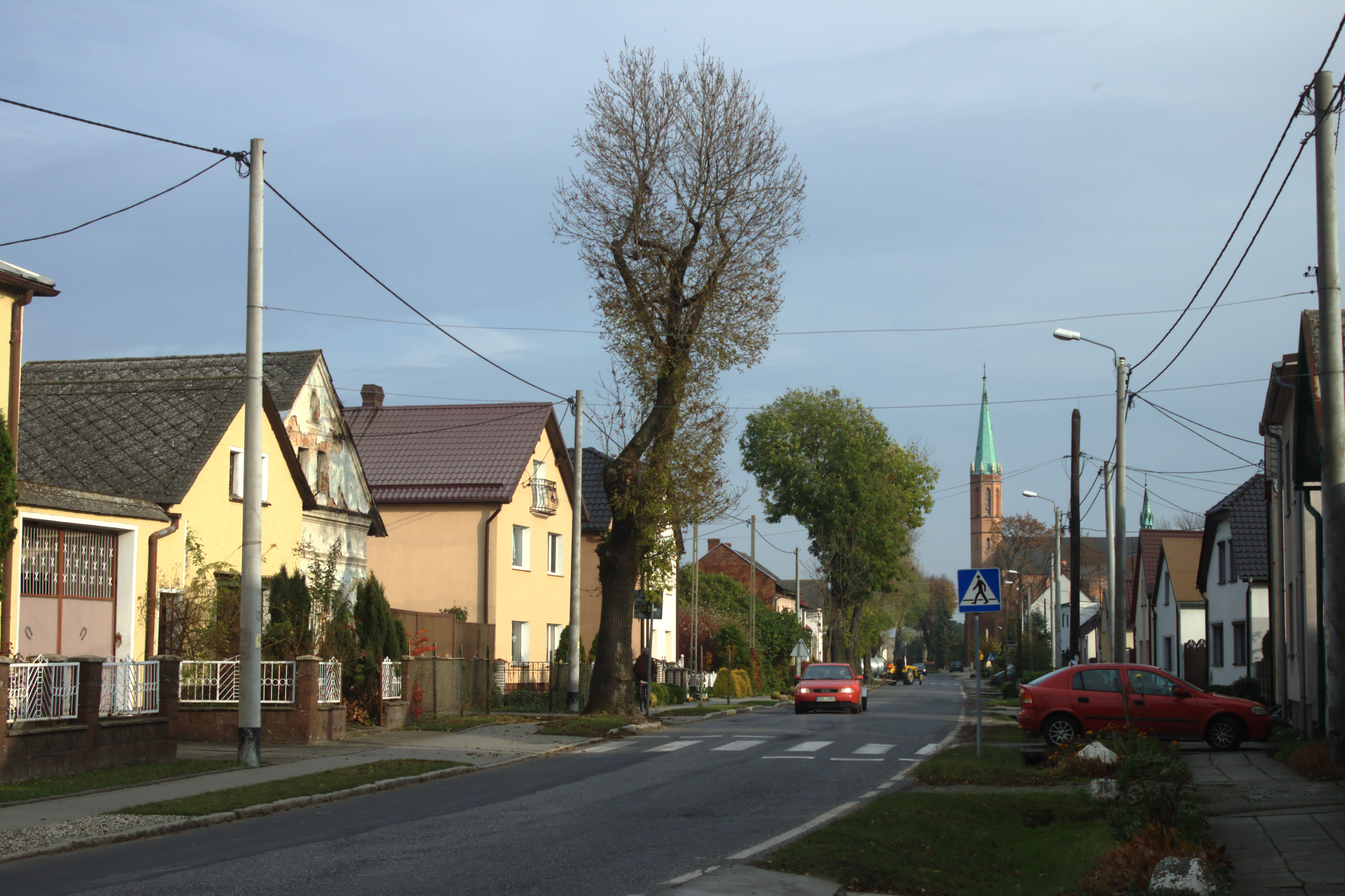 Main road in the village of Cyprzanów, Silesian Voivodeship, PL